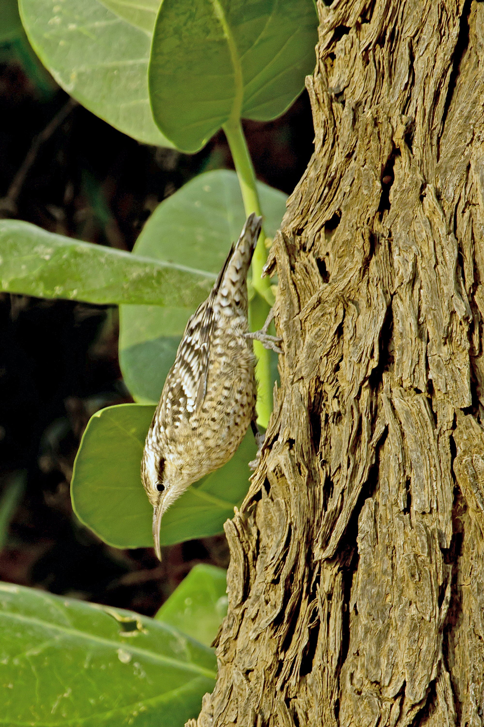 A shot that I was able to fire off in the 4 seconds that I saw the bird at Tal Chappar Wildlife Sanctuary, Churu, Rajasthan